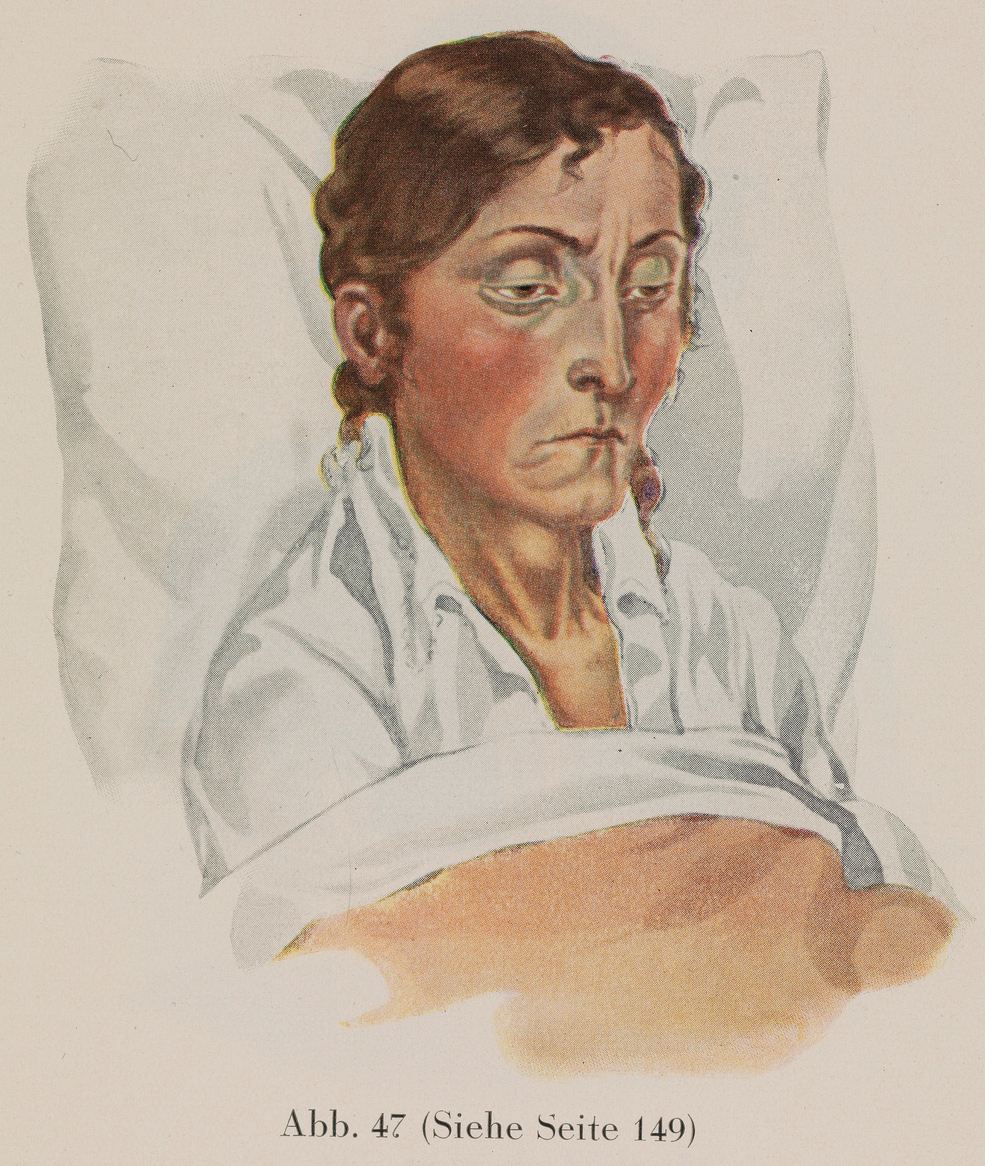 Abb 47, page 149. 40 year old woman suffering from pneumonia General Collections Keywords: Pneumonia; Physiognomy